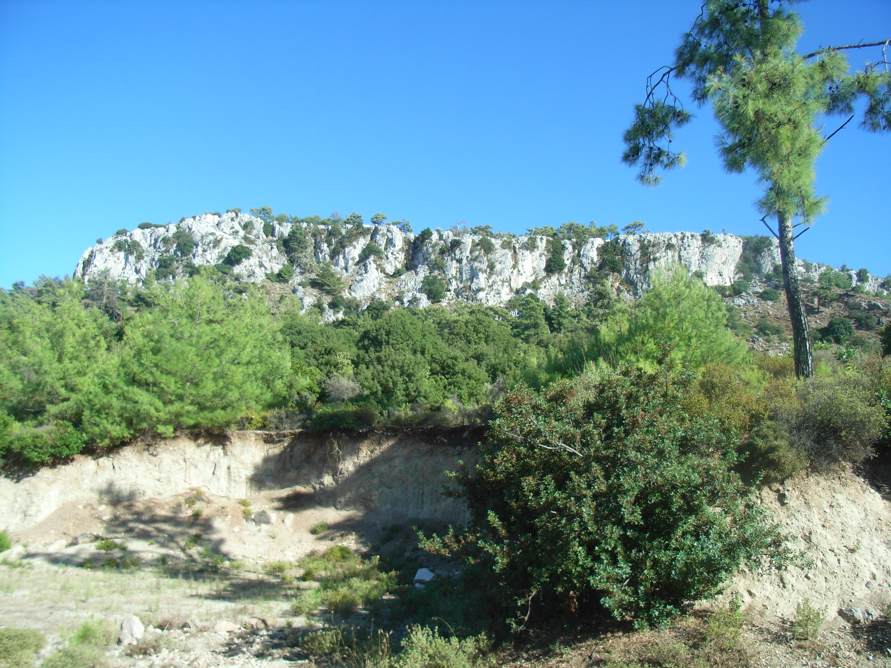 Profitas Ilias Rodos, Greece Cliff near the Limestone cliff near summit